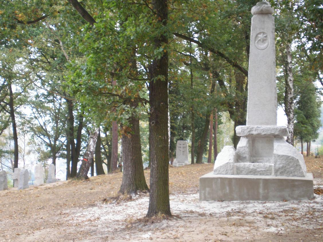 Podhrad (Cheb), Cheb district, Czech Republic; WW1 cemetery for prisoners of war